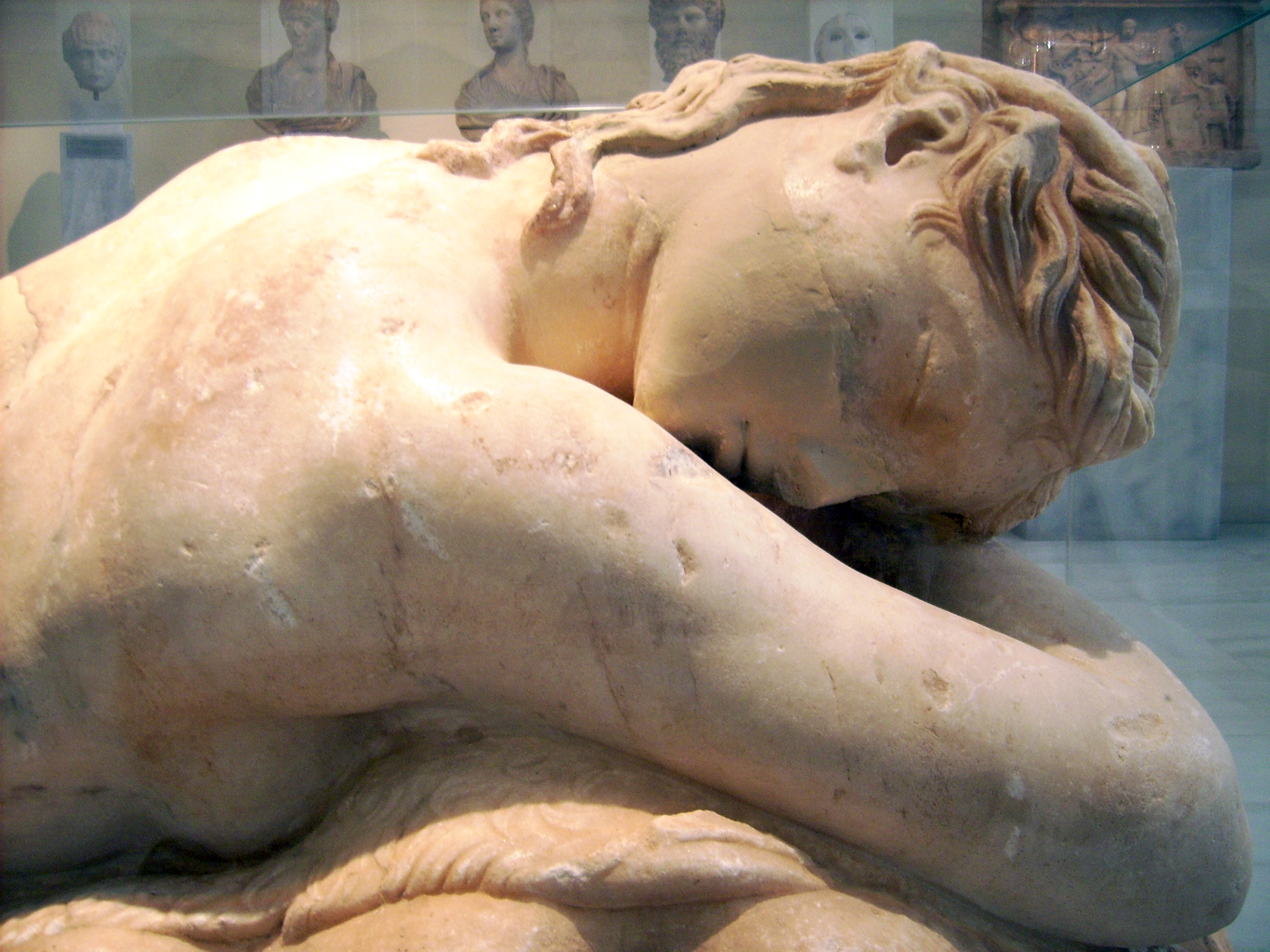 Statue of a sleeping Maenad, lying on a panther skin spread on a rocky surface (detail); the type in known as the reclining Hermaphrodite; Pentelic Marble; found at the south of the Athenian Acropolis; Hadrianic time (117-138), follows a classical trend in the attic art; National Archeological Museum Athens (261)